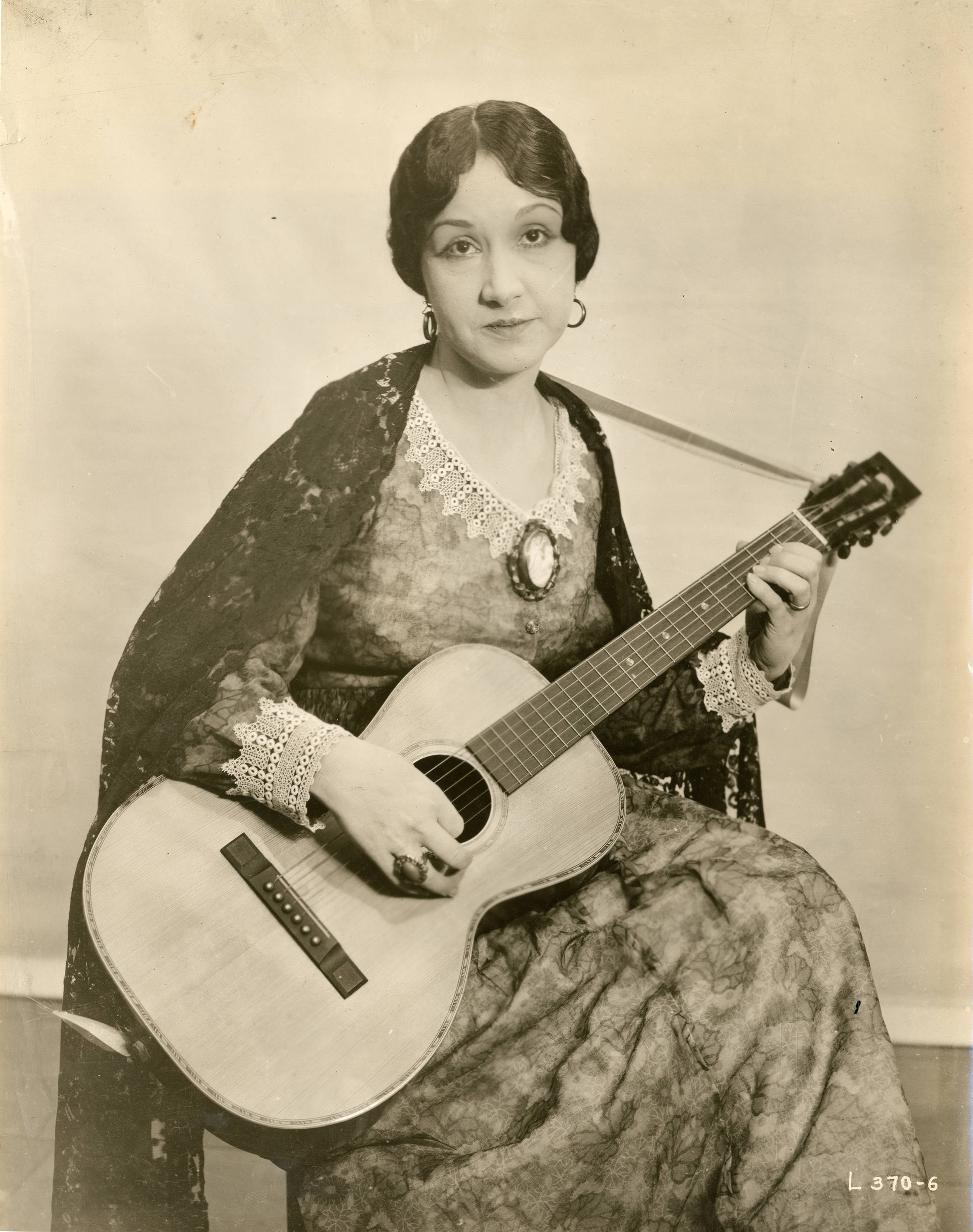 Silent film actress Alice Hollister, from the American film A Wise Fool (1921). Subjects: actresses